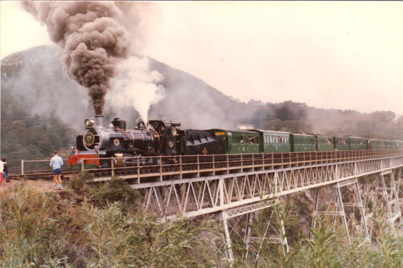 SAR Class NG 15 124 (2-8-2) Location: Van Stadens River Bridge